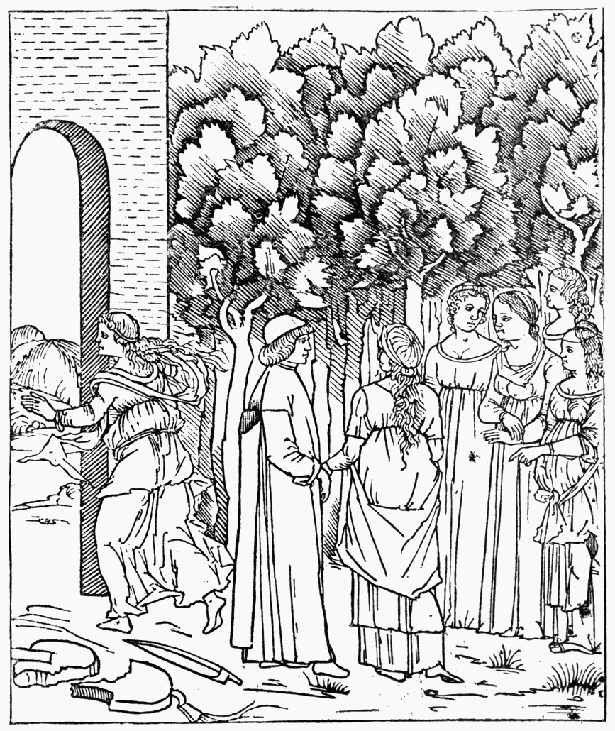 Poliphilo in the Garden, from 'Hypnerotomachia Poliphili,' printed at Venice.